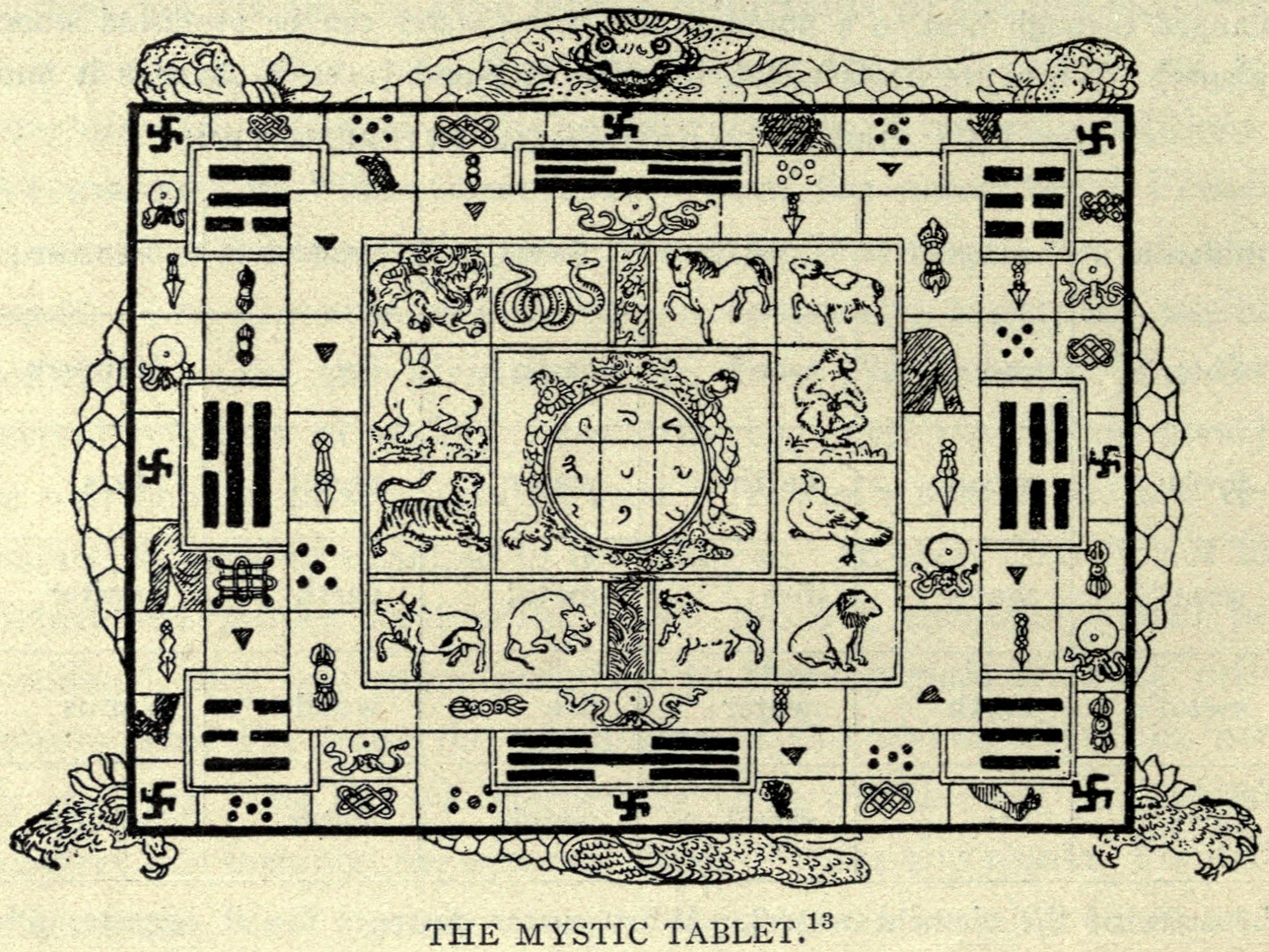 The "Mystic Tablet". According to Carus' explanation, it contains, on the shield of a tortoise (alluding to the animal that has revealed the Eight Trigrams to Fu Xi, and which was, in more canonical accounts, a "dragon horse") a chart with the 8 Trigrams, the 12 figures of Chinese animal cycle, etc. The centerpiece is another, smaller, tortoise, the one that revealed the Luoshu magic square to Yu the Great. Tibetan script appears in the center of this diagram